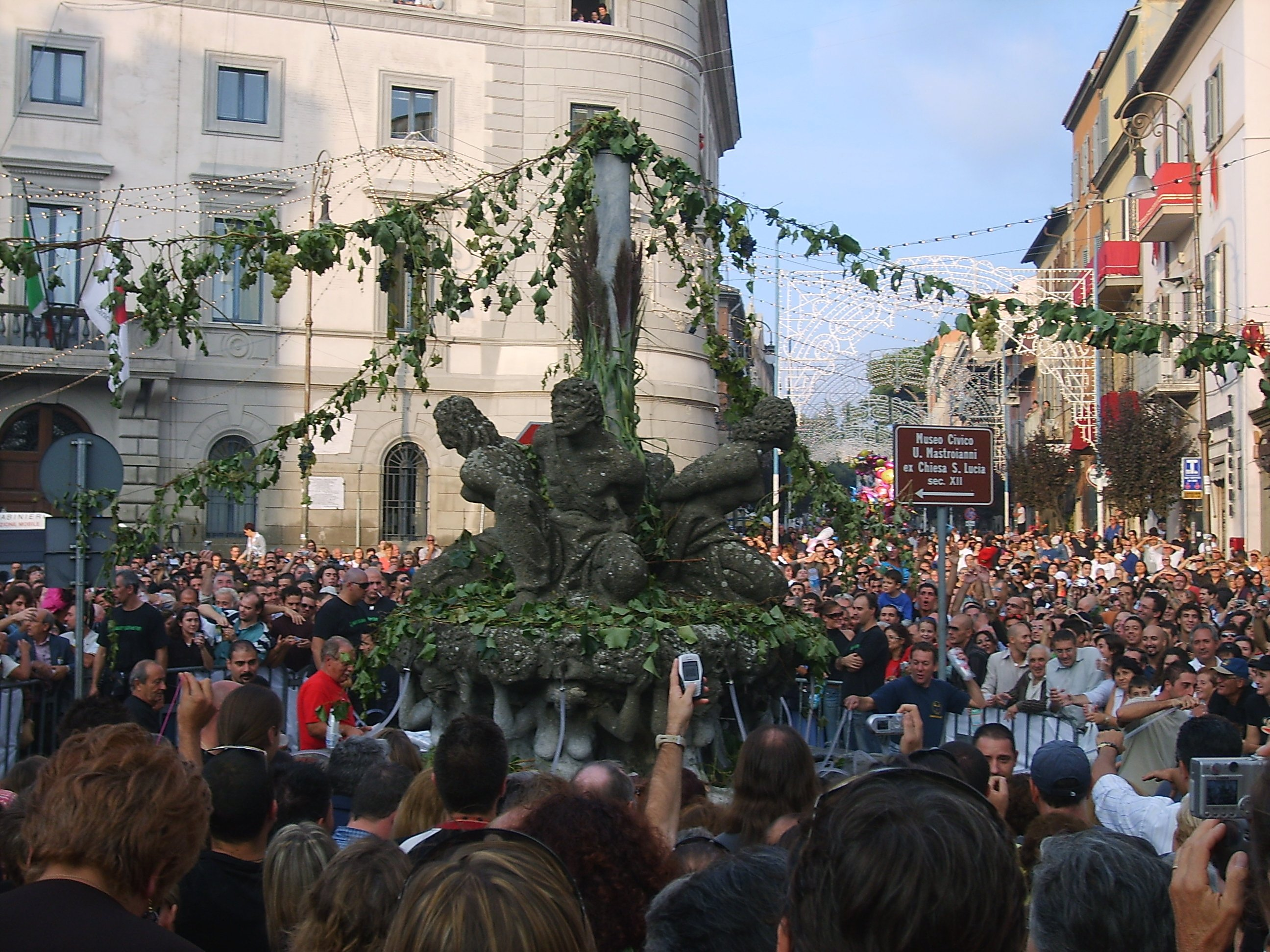 Picture of the Grapes Festival on the 1st October 2006 in Marino, Italy. This is the moment when the fountains give wine instead of water